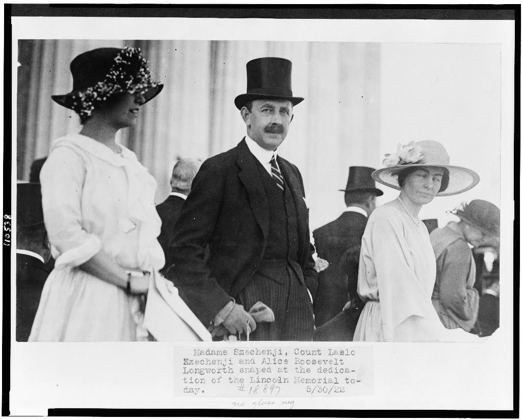 Title: Madame Széchenji, Count Lásló Széchenji, and Alice Roosevelt Longworth snaped [sic] at the dedication of the Lincoln Memorial today Abstract/medium: 1 photographic print.